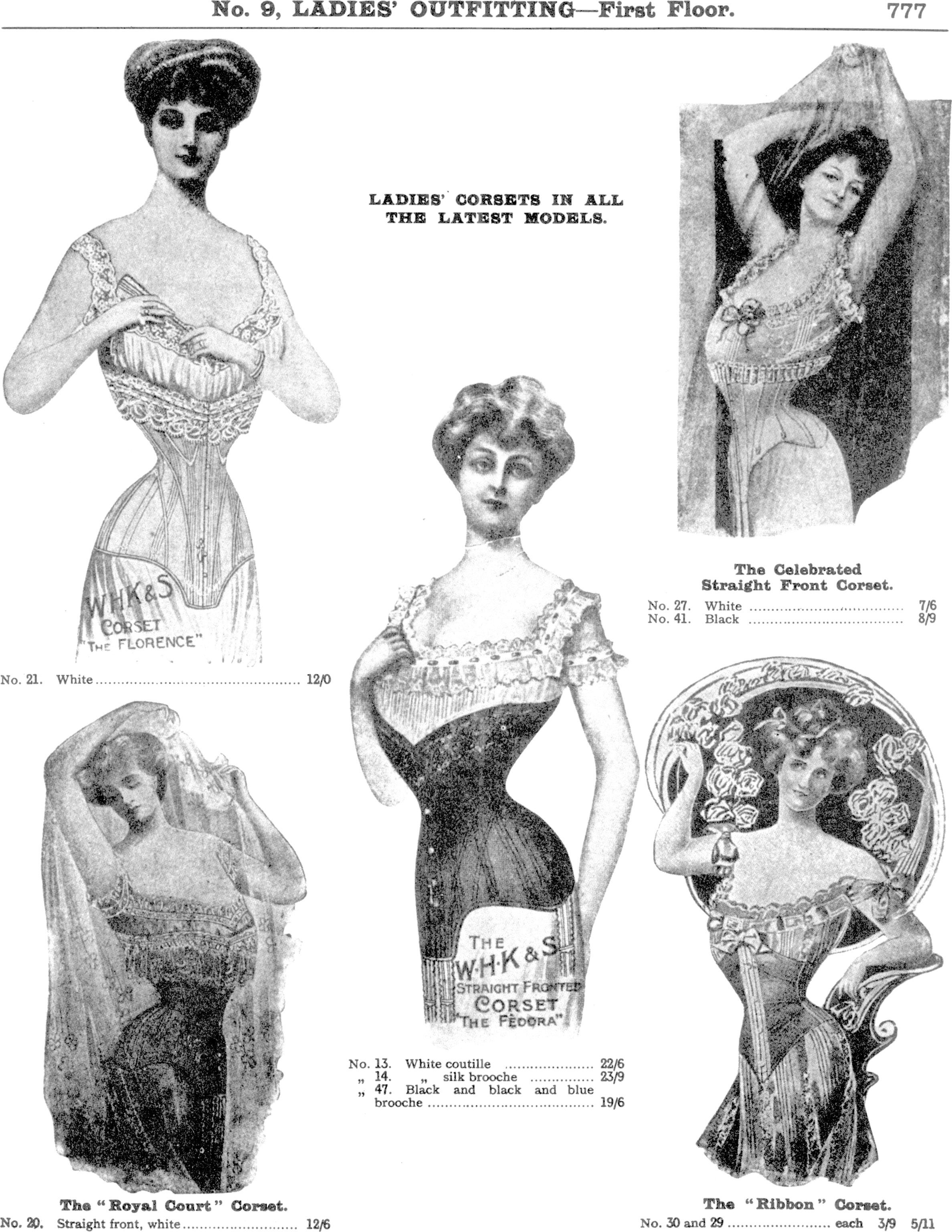 Corsets